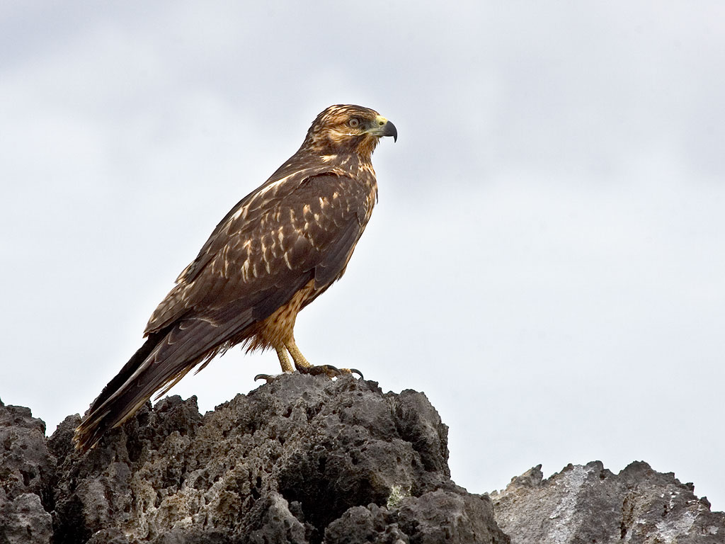 Galapagos Hawk by Thomas O'Neil